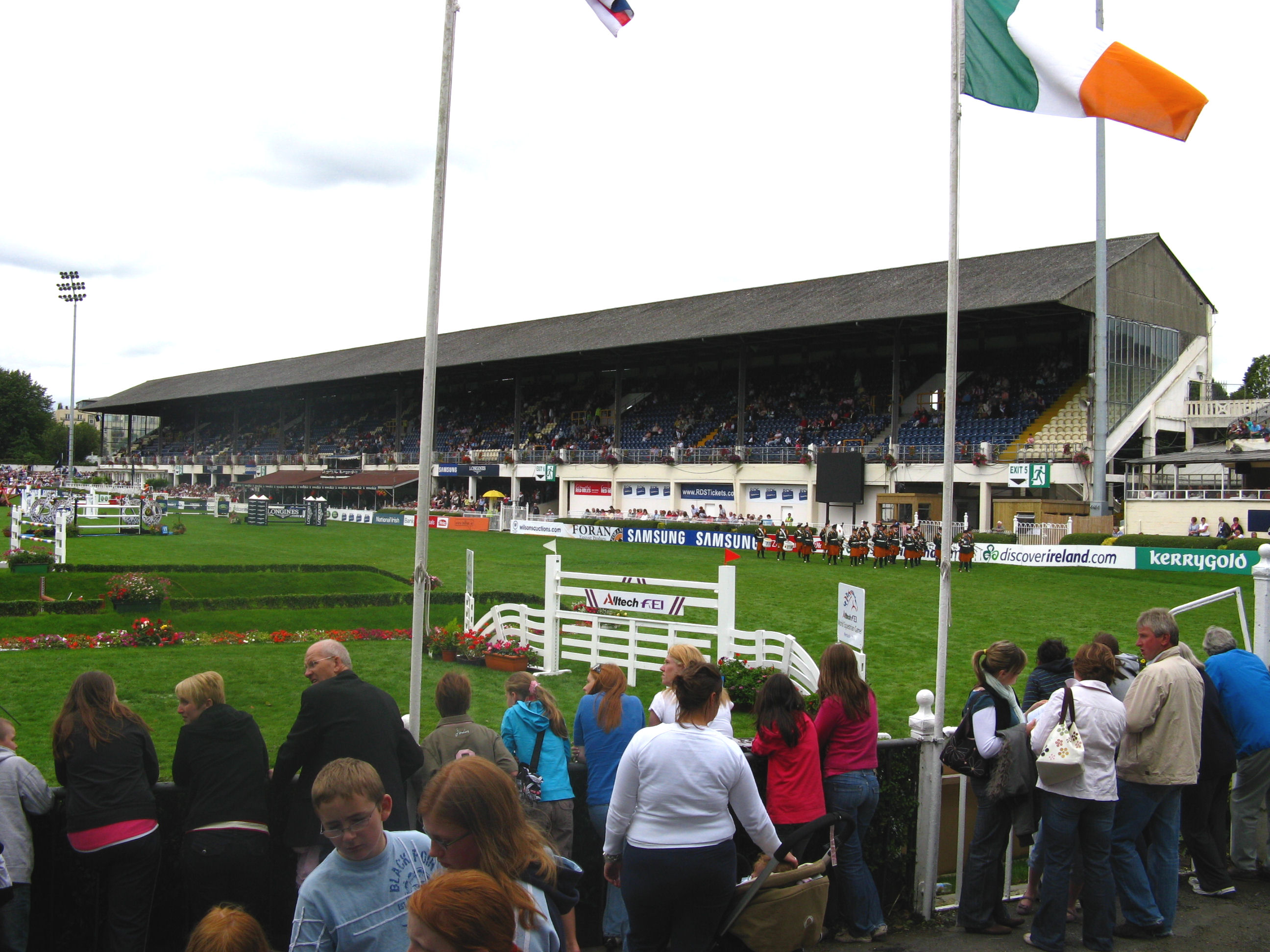 RDS Dublin Horse Show 2008 main arena, looking at the Anglesea Stand